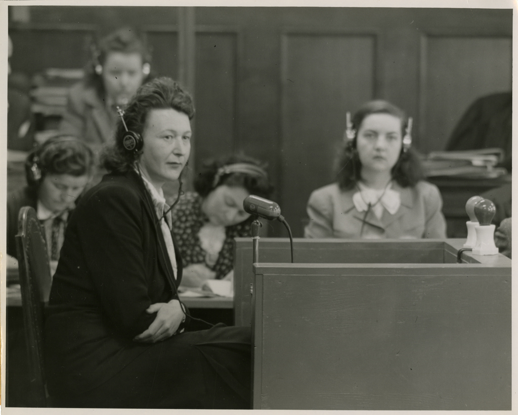 Prosecution witness Irene Seiler sits on the witness stand at the Nuremberg Trials